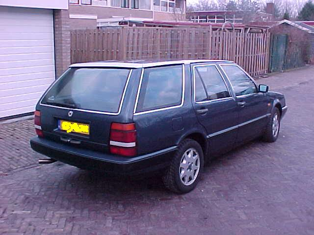 Lancia Thema Turbo 16V